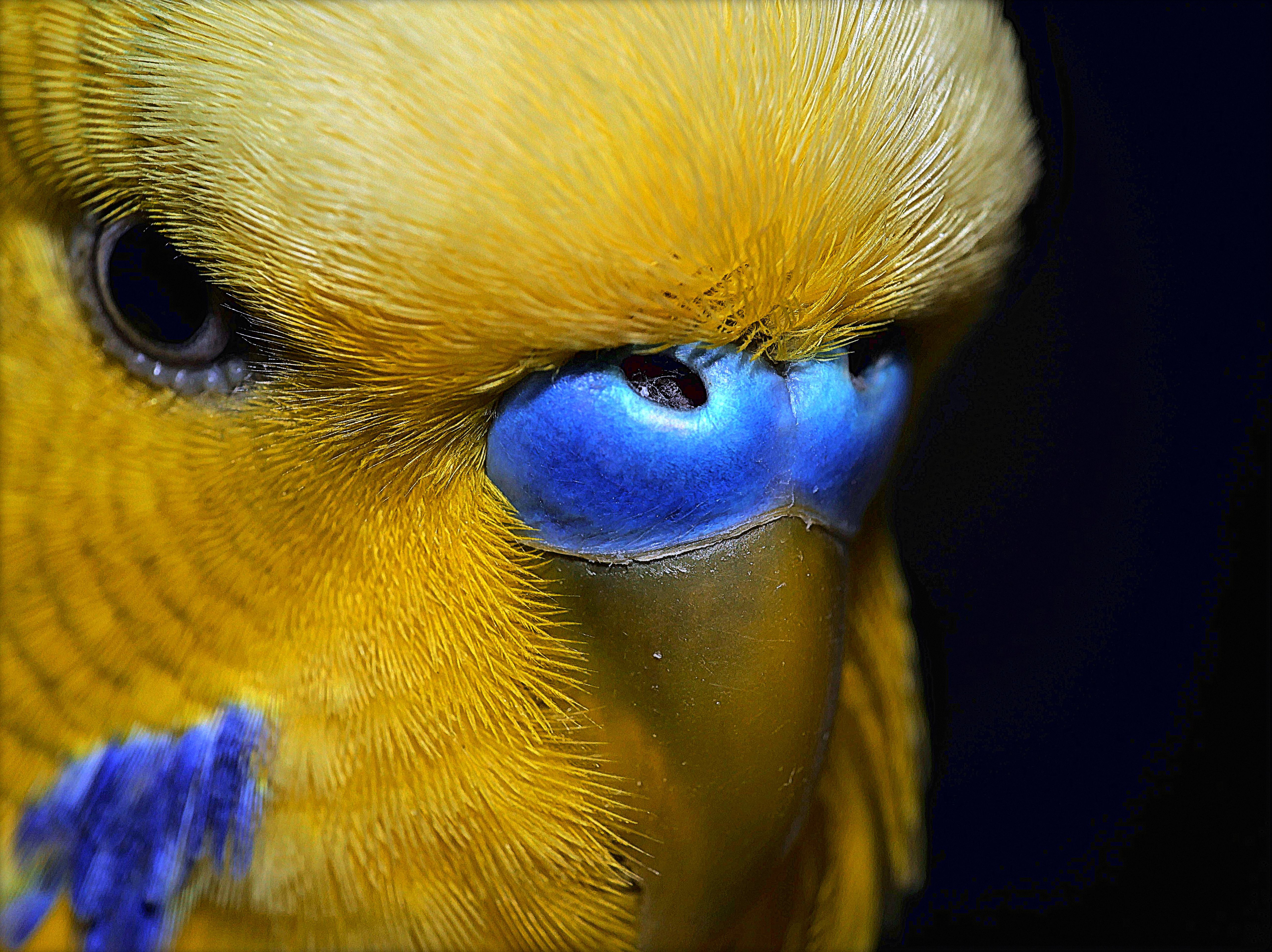 Olympus 2,8/ 60mm Macro + Raynox 250